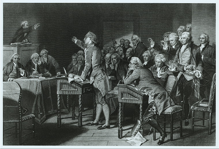 Patrick Henry Addressing the Virginia Assembly. Lithograph from the painting by A. Chappal. Engraved by H. B. Hall.